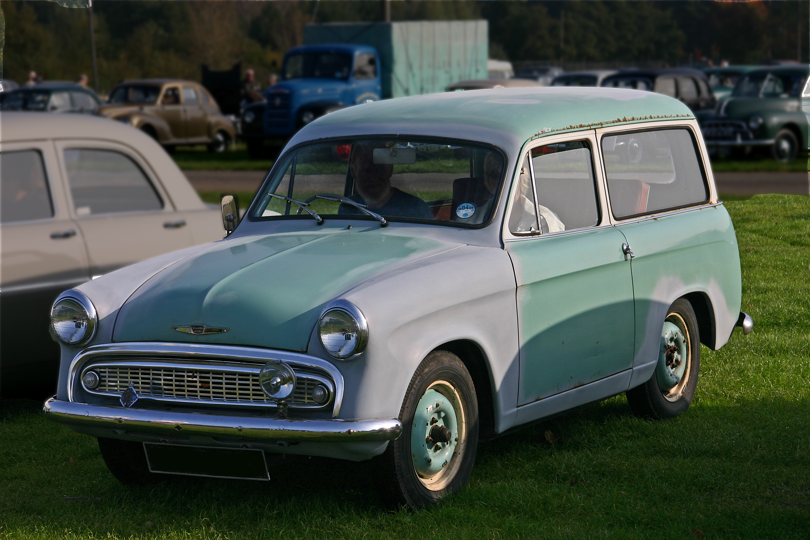 Hillman Husky Series I. Launched in 1958, the Husky was based on the Series II Hillman Minx with the wheelbase shortened by 8inches. A detuned version of the Minx 1390cc engine was given to this cut-price Audax car.